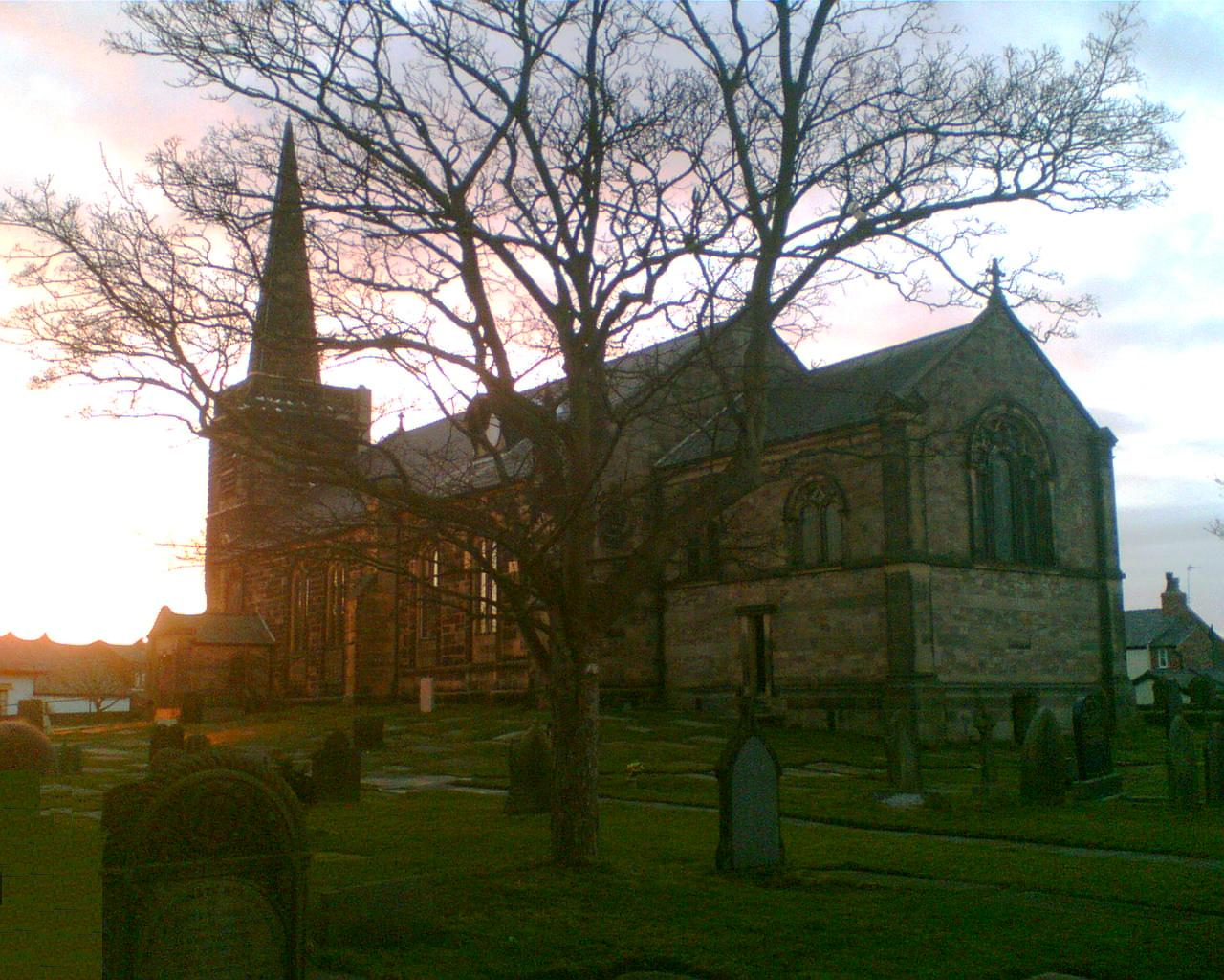 Saint Cuthbert's Church from the Grave Yard